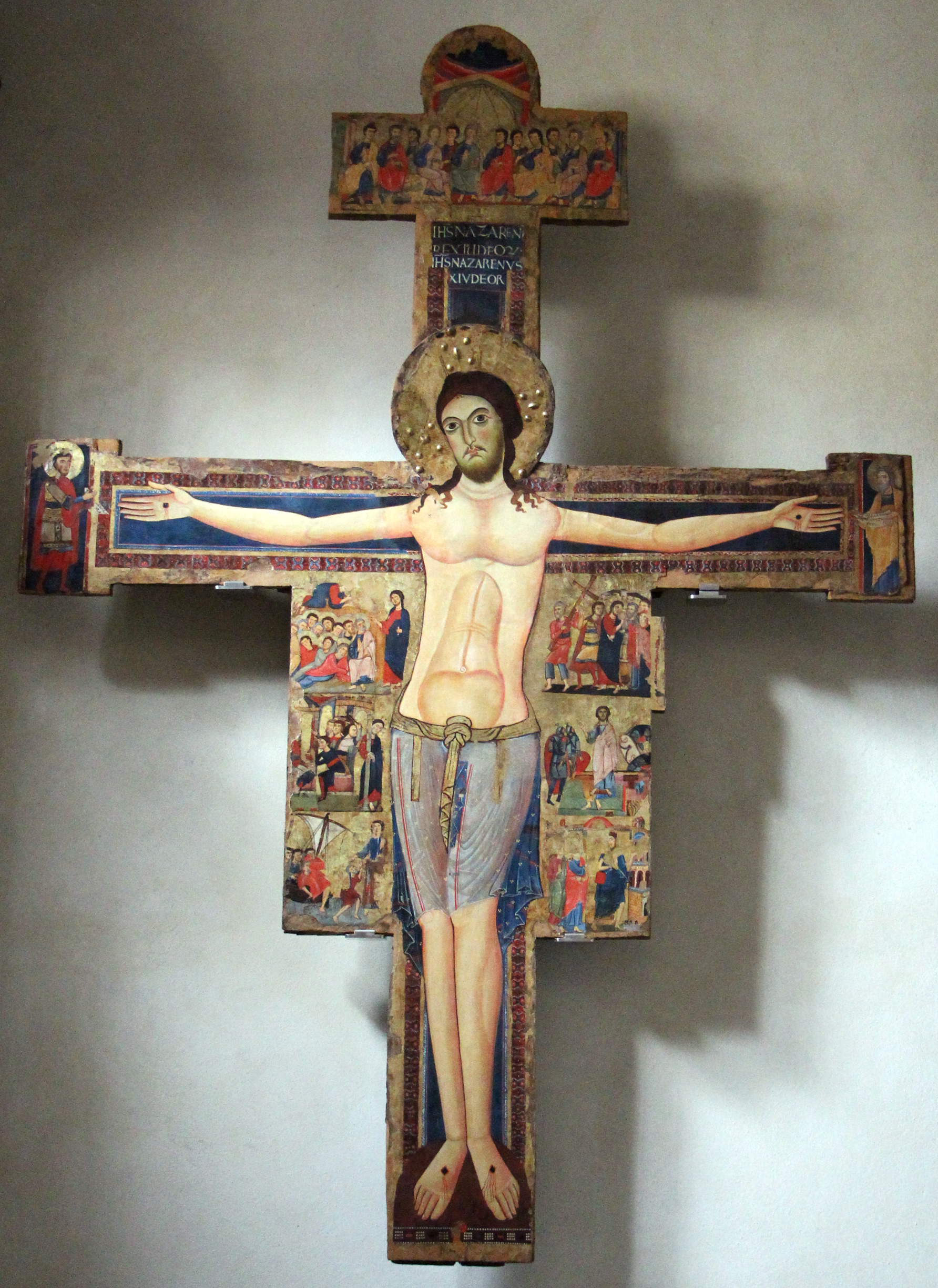 Painted crucifix of San Frediano (Pisa)